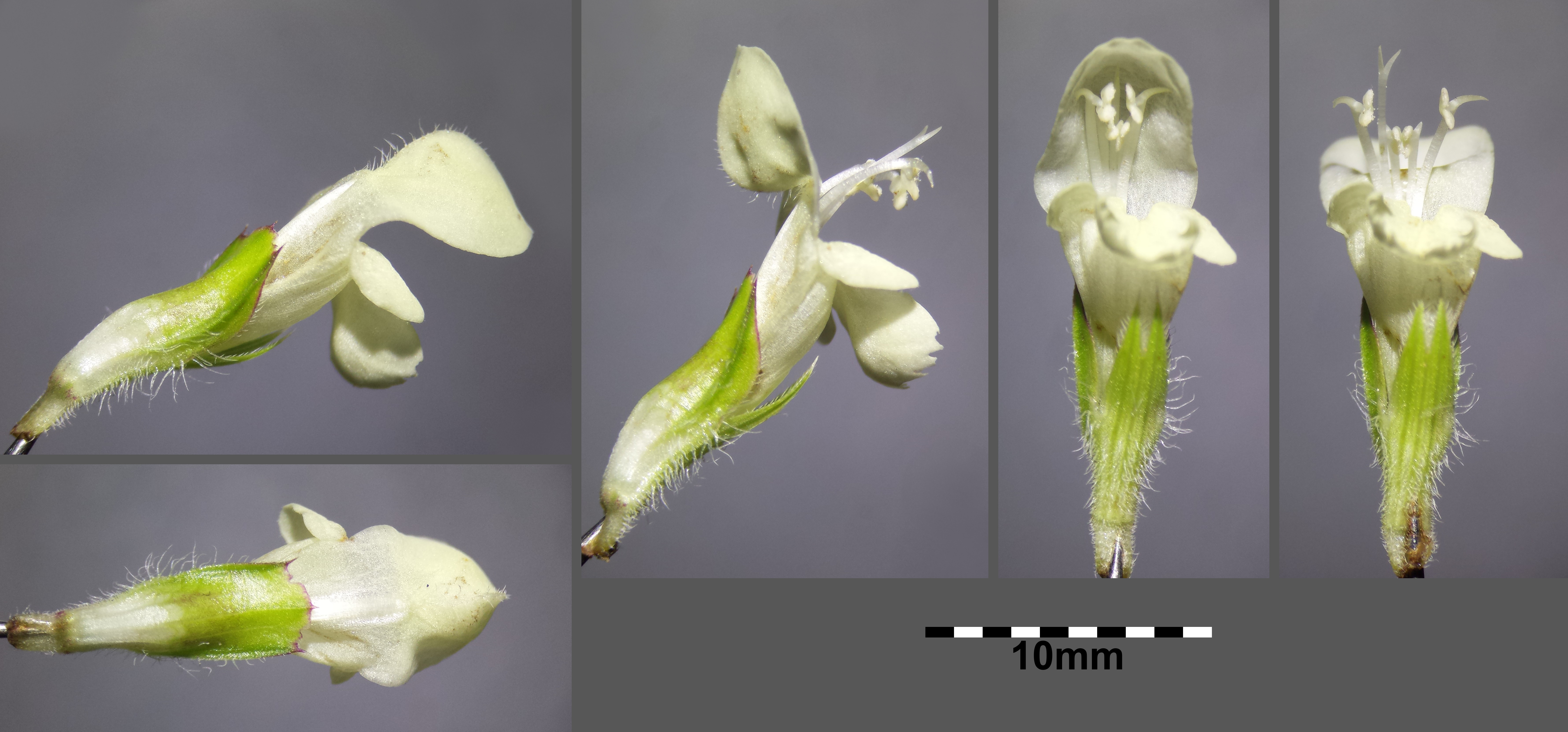 Flower Taxonym: Prunella laciniata ss Fischer et al. EfÖLS 2008 ISBN 978-3-85474-187-9 Location: to the east of Neusiedl am See, district Neusiedl am See, Burgenland, Austria - ca. 160 m a.s.l. Habitat: semi-dry grassland